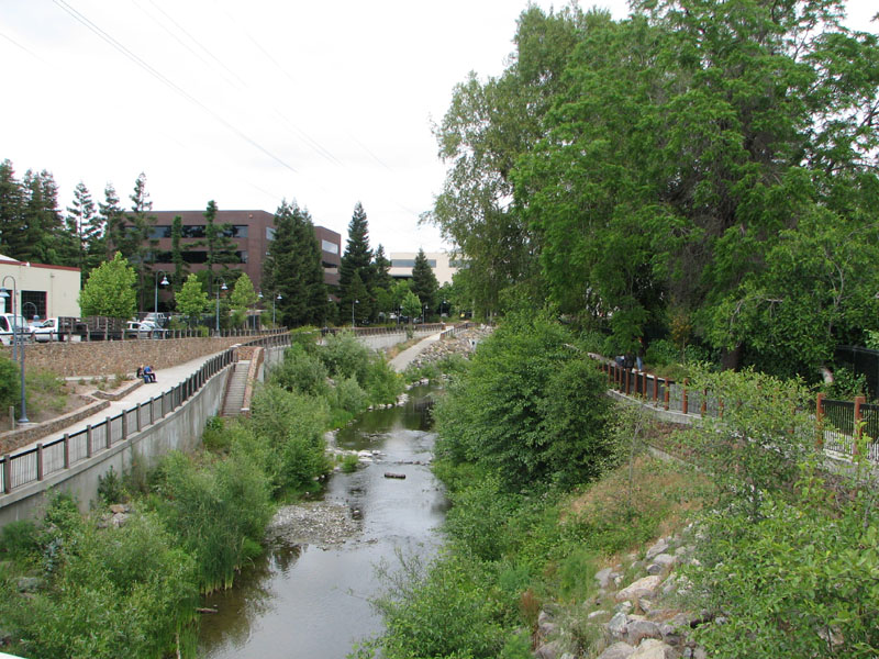 The portion of Prince Memorial Greenway that goes through downtown Santa Rosa, California, United States.